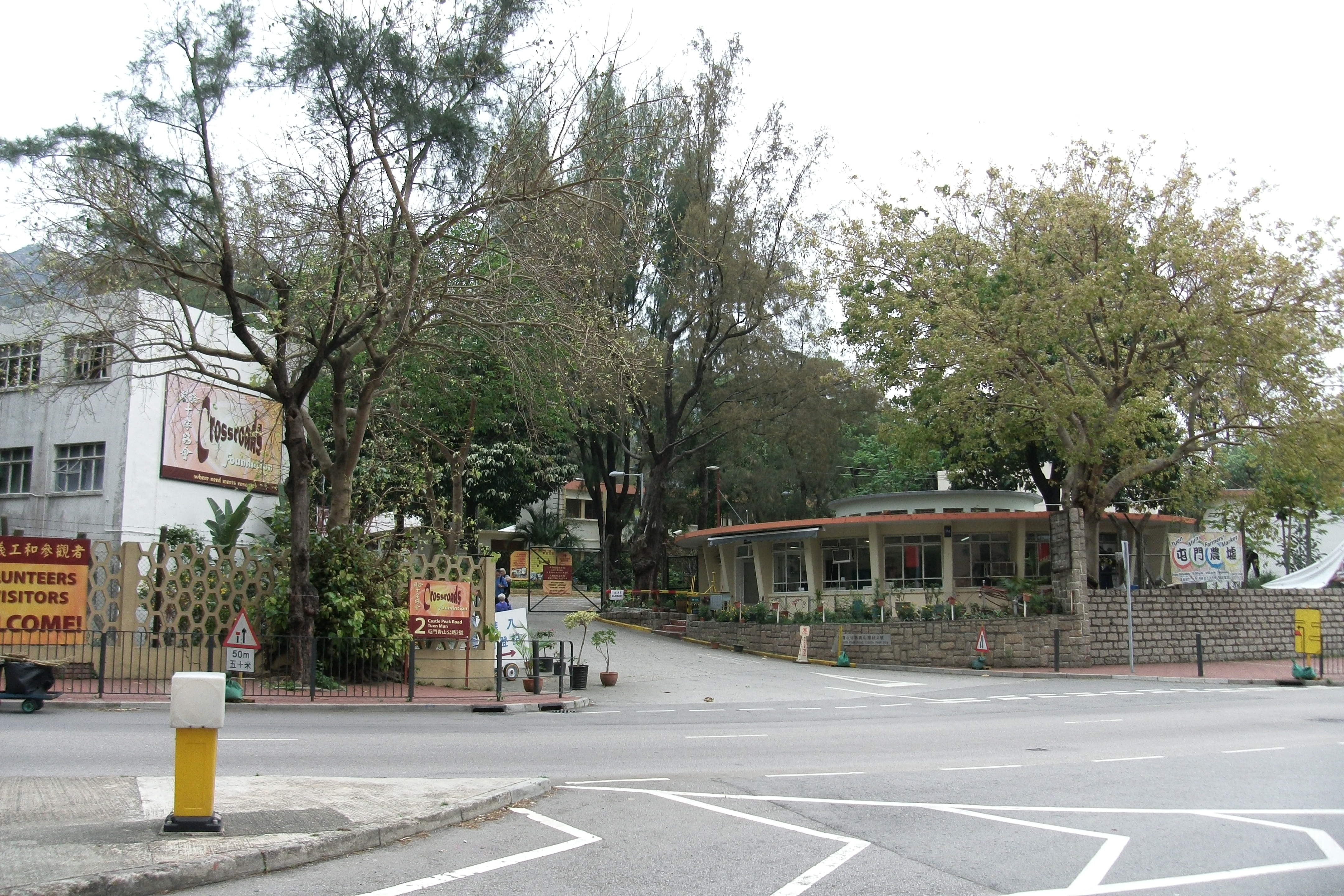 Entrance of Perowne Camp